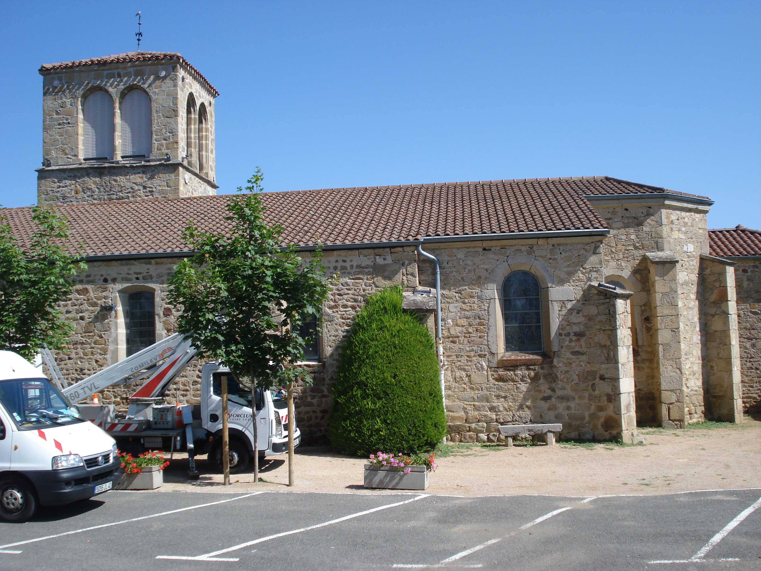 Church of Saint-Georges-Hauteville